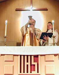 Dr. Gregory S. Neal, UM Elder, presides at the Eucharist.